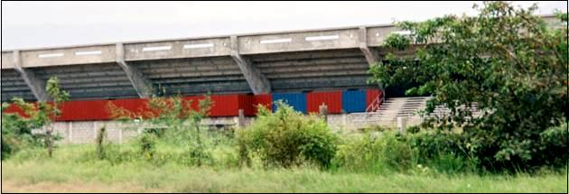 Carlos Miranda Stadium of Comayagua during construction.This file has been released into the public domain by Juan Irias, photographer of the image in Comayagua, Honduras, 11-01-2005.